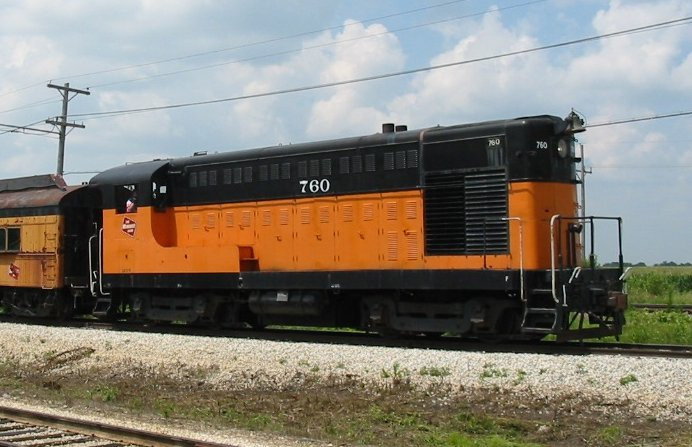 Milwaukee Road 760, the first locomotive built by Fairbanks-Morse, preserved in operating condition at Illinois Railway Museum.